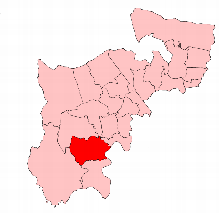 A map of Heston and Isleworth constituency within Middlesex, as it existed from 1945 to 1950.